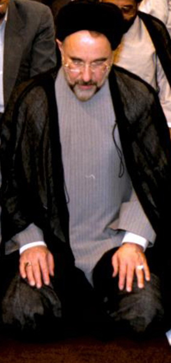 Meeting of the 7th Cabinet members with Leader Ali Khamenei - Praying - August 28, 2000 (Cropped on Khatami)